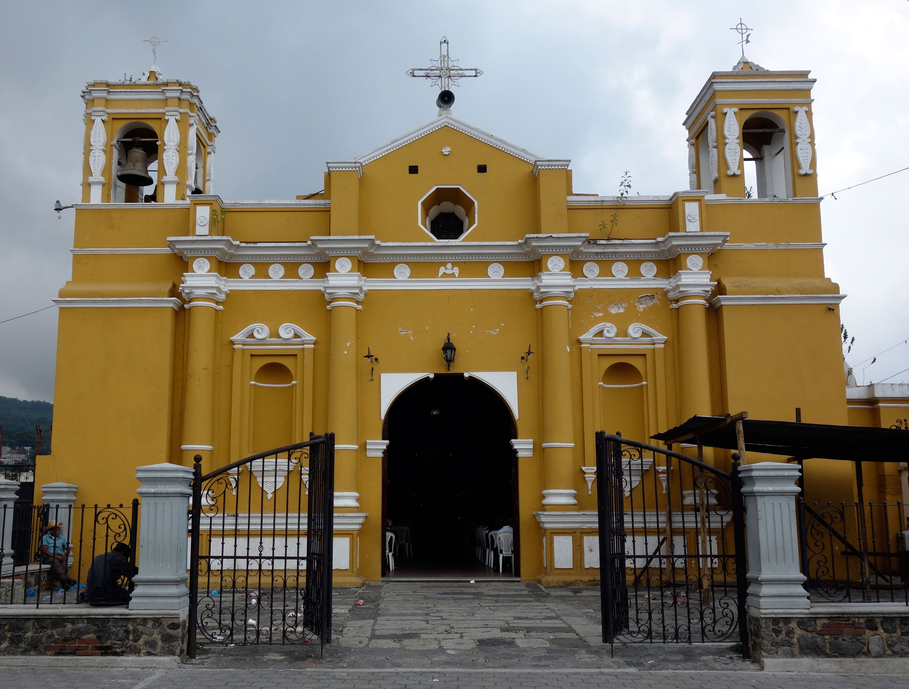 Church of San Juan Bautista in Alotenango